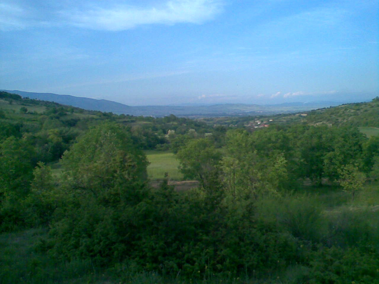 Karšijaka area, Sopište Municipality, Republic of Macedonia